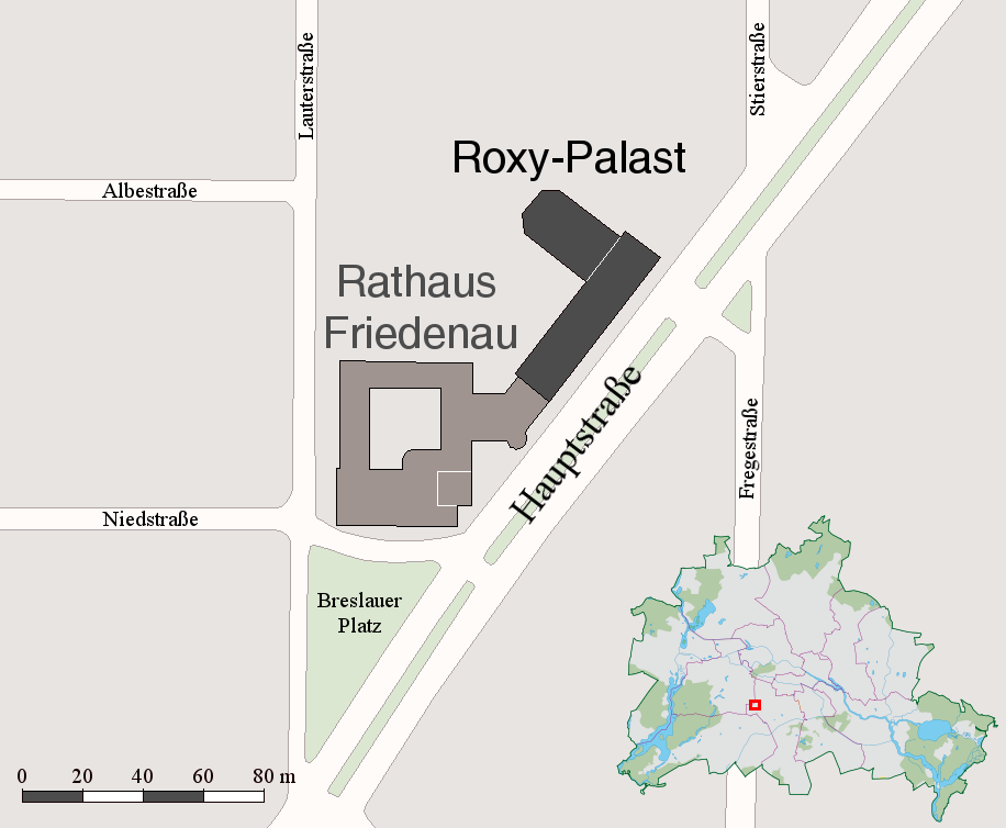 Plan of the surroundings of Rathaus Friedenau and Roxy-Palast in Berlin-Schöneberg.